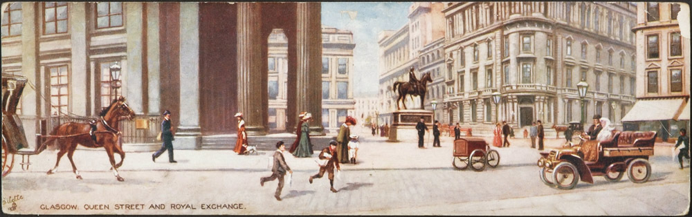 Postcard of Royal Exchange Square, Glasgow in the 1890s